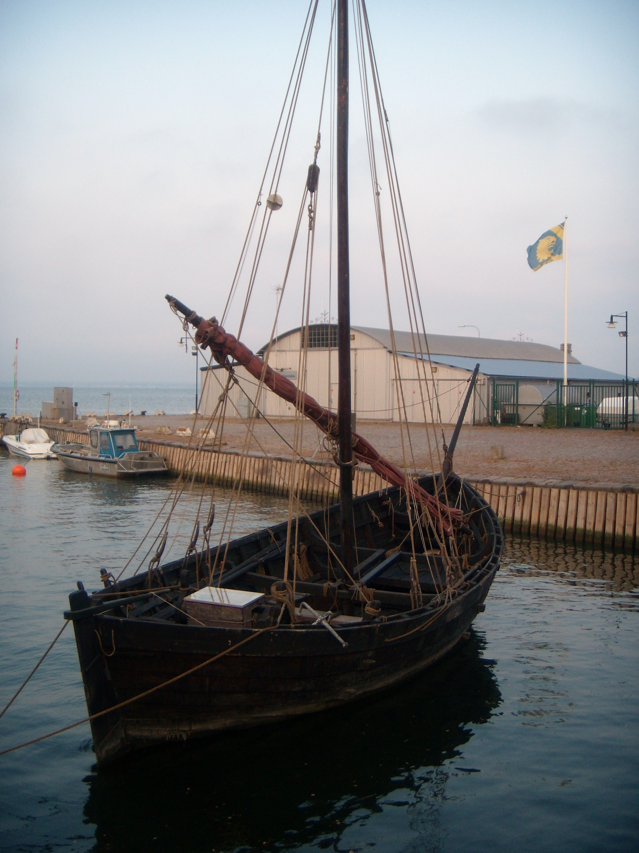 Aluett, a boat from Kalmar